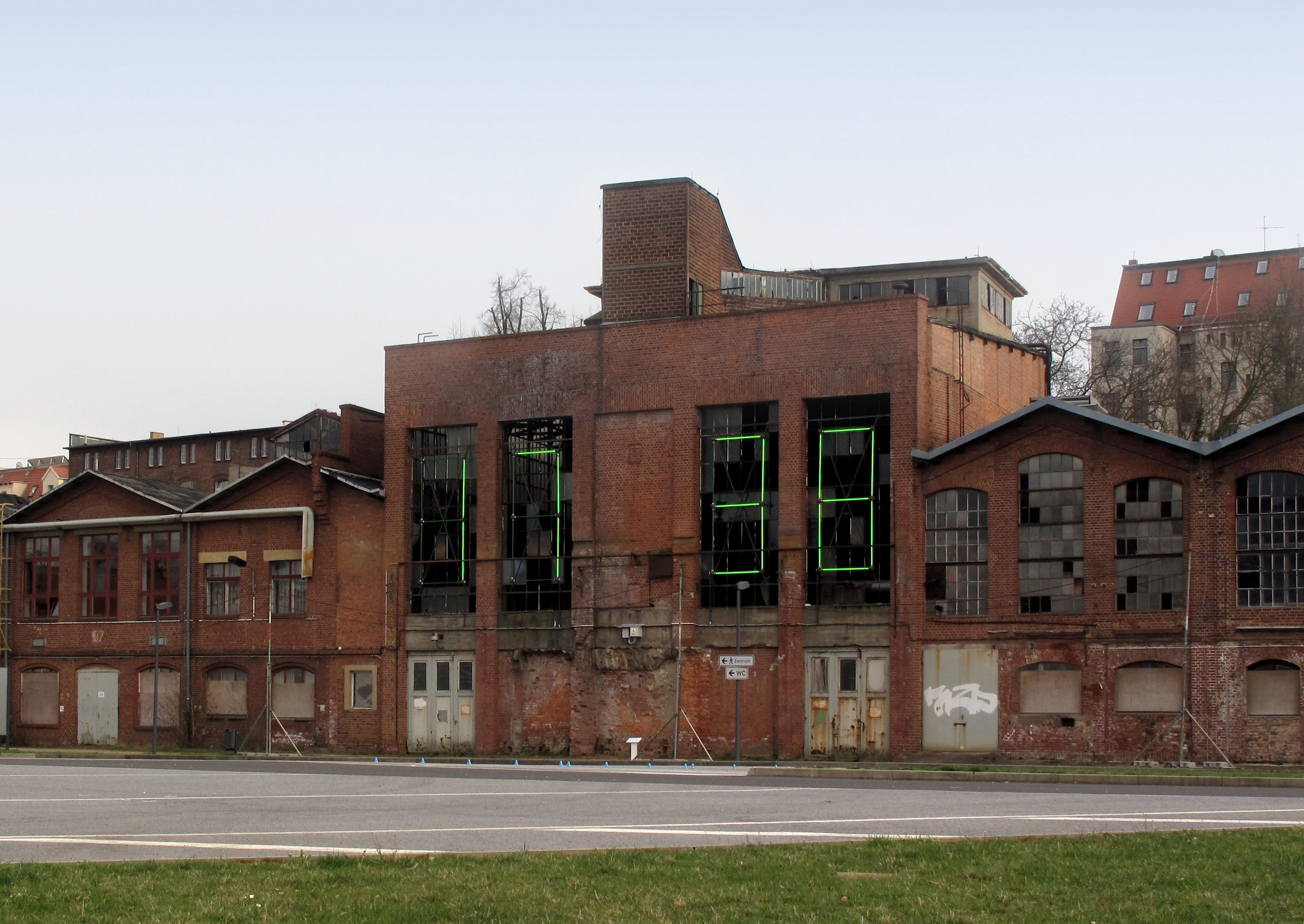 Work of Art (luminous installation) "Clock" by Anna Kuśmierczyk and Klaudia Heintze on the facade of the former wagon-plant factory I in Görlitz, Conrad-Schiedt-Street as part of Görlitzer ART. Four main windows of the former plant building are used as a luminous clock.